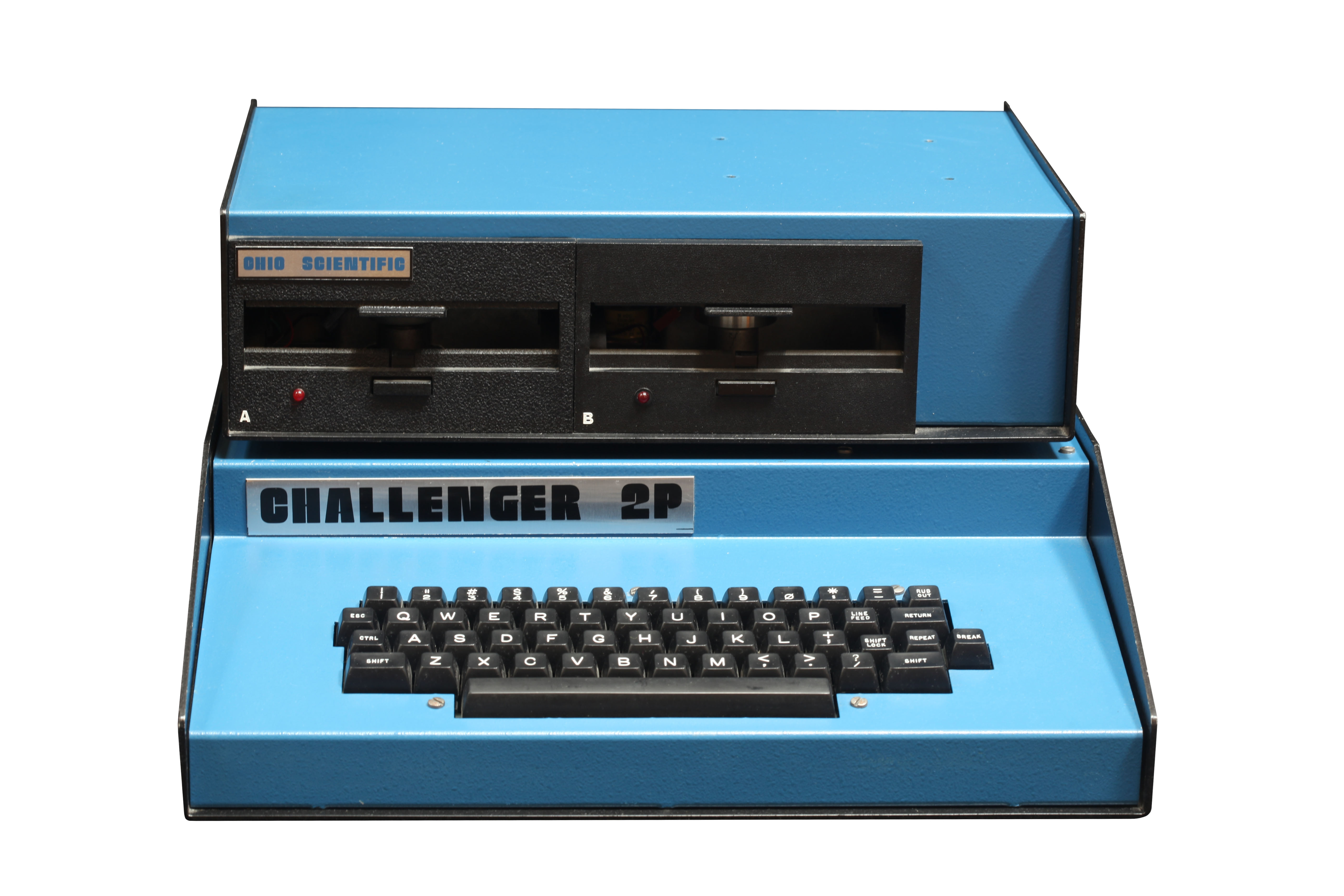 Ohio Scientific Challenger 2P, with optional double disk unit. On display at the Musée Bolo, EPFL, Lausanne.